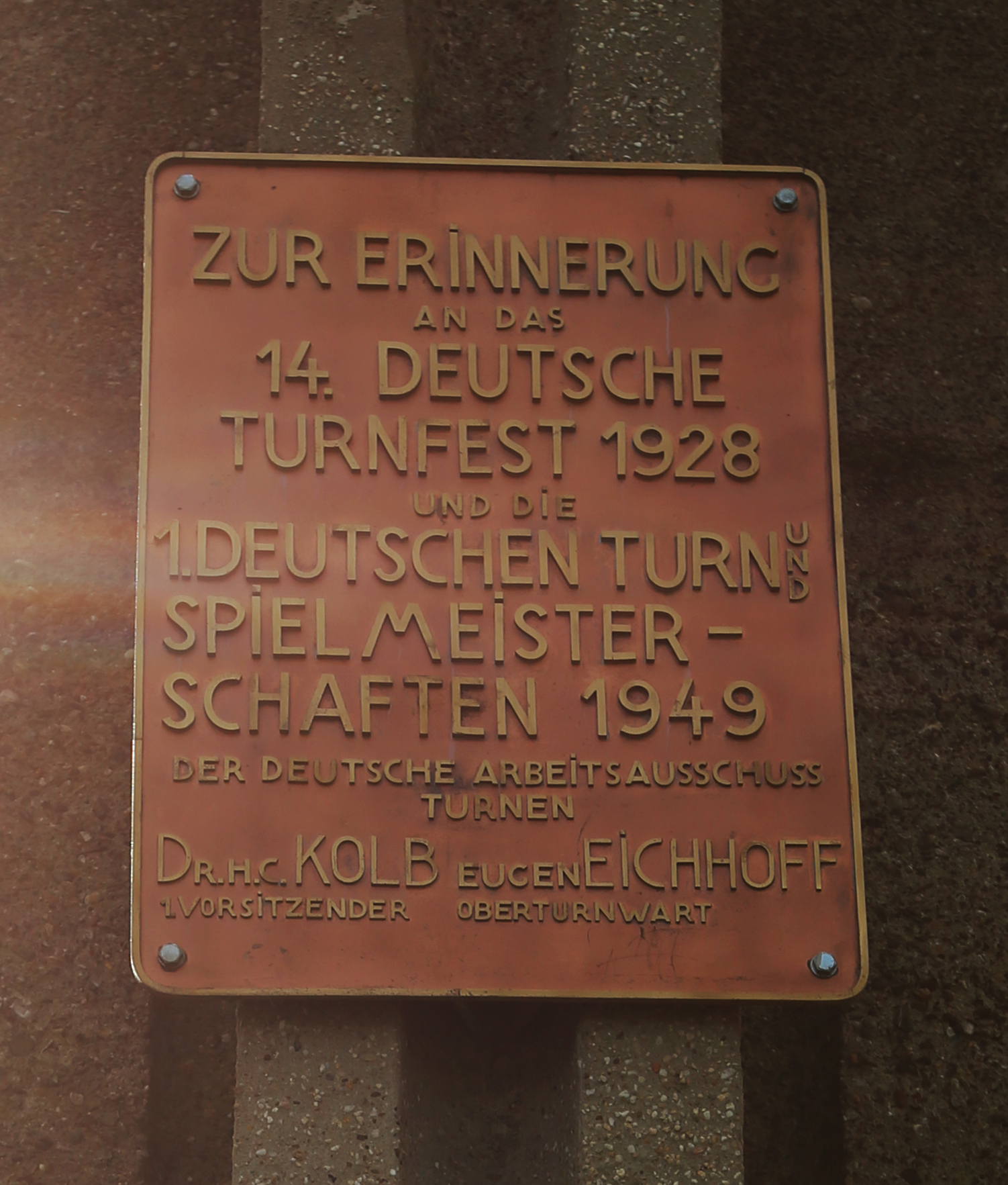 Historical monument, in remembrance of Friedrich Ludwig Jahn, unveiled at the German sporting event in 1928